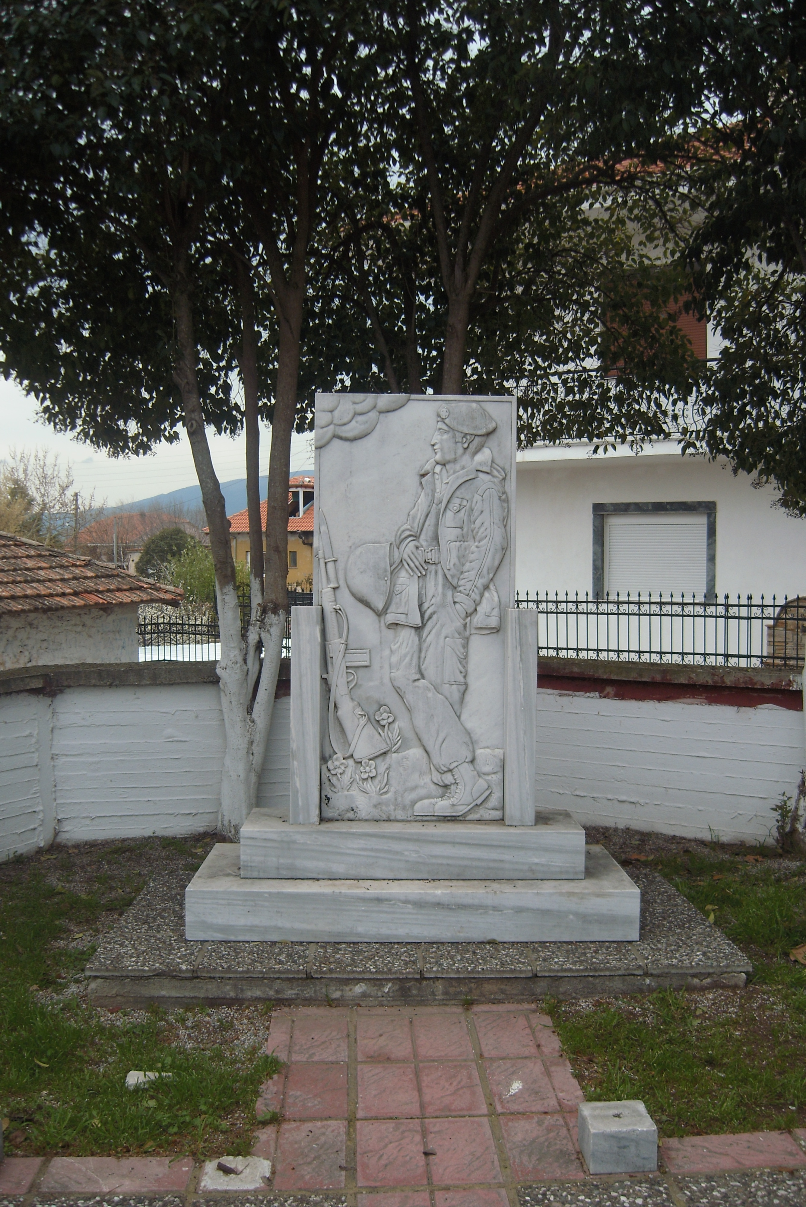 Military Monument in Petroussa (Plevna)